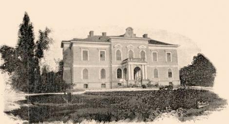 Castle from Ciumeşti located in Satu Mare County, Romania. Owner was the Dégenfeld's family.